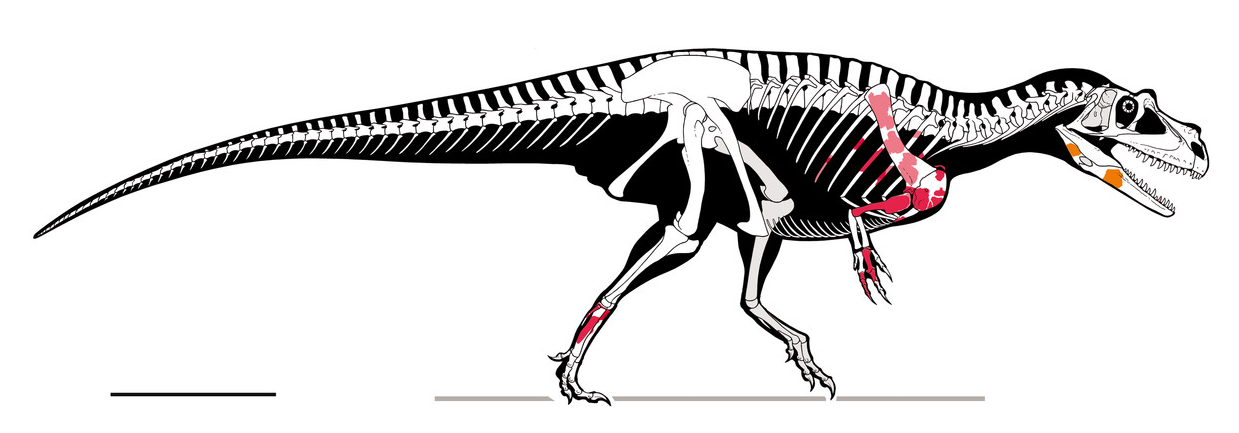 Skeletal diagram of Saltriovenator. Known material in colour.